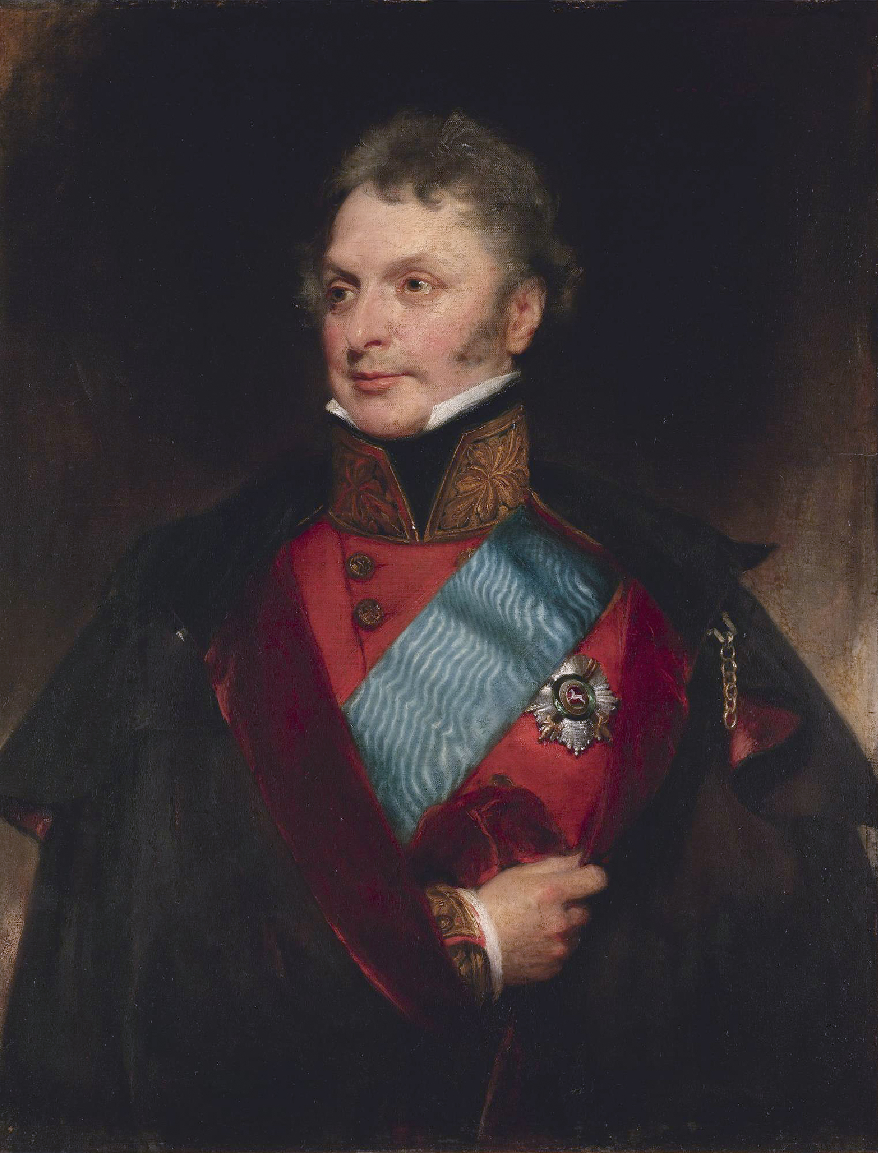 Major-General Sir Henry Wheatley (1777-1852) wearing the sash and breast star of the Royal Guelphic Order